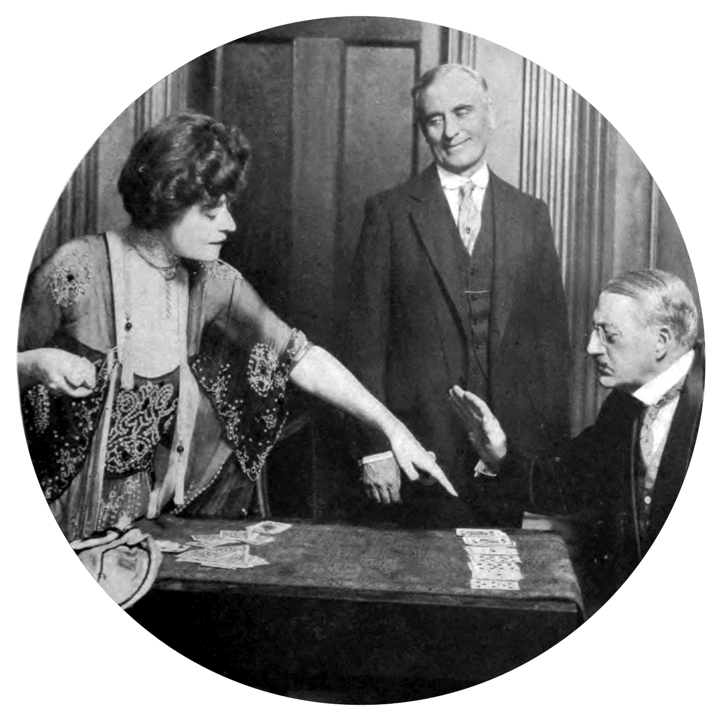 Photograph of the Broadway production of the 1921 play The Circle, by W. Somerset Maugham Caption reads as follows:MRS. LESLIE CARTER, ERNEST LAWFORD and JOHN DREW IN "THE CIRCLE"Act II. Lord Porteus (John Drew) always was crotchety when playing bridge, and this time he and his mistress have a regular flare-up, much to the amusement of Lady Kitty's former husband, who stands smiling in the background